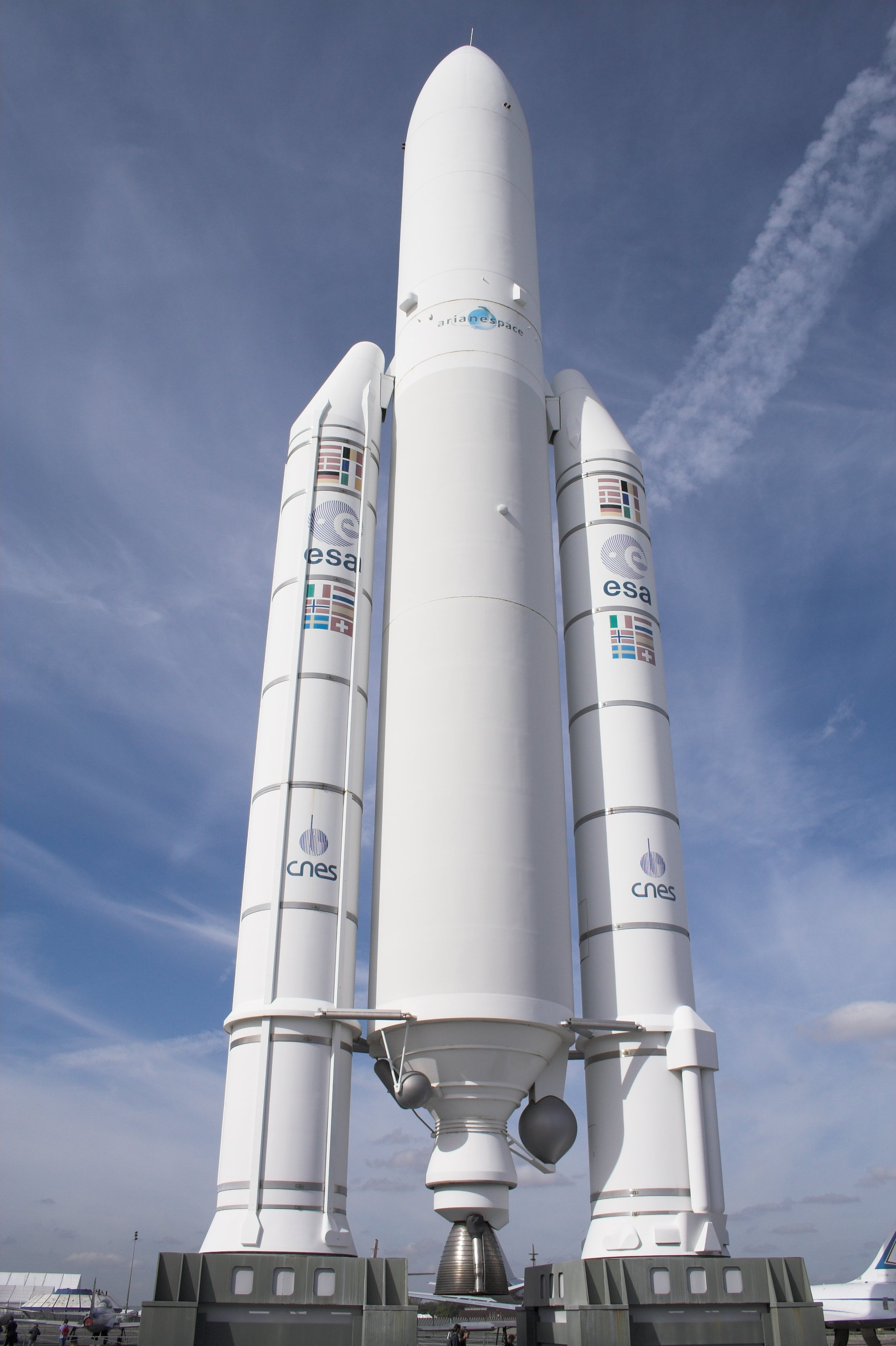 A model of an European rocket Ariane 5 in the Museum of Air and Space(Musée de l'air et de l'espace, Le Bourget, France)